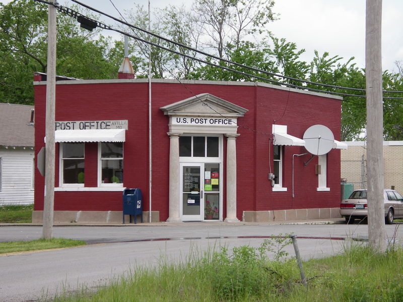 Post Office in Avilla, Missouri (Formally Bank of Avilla, erected 1915)